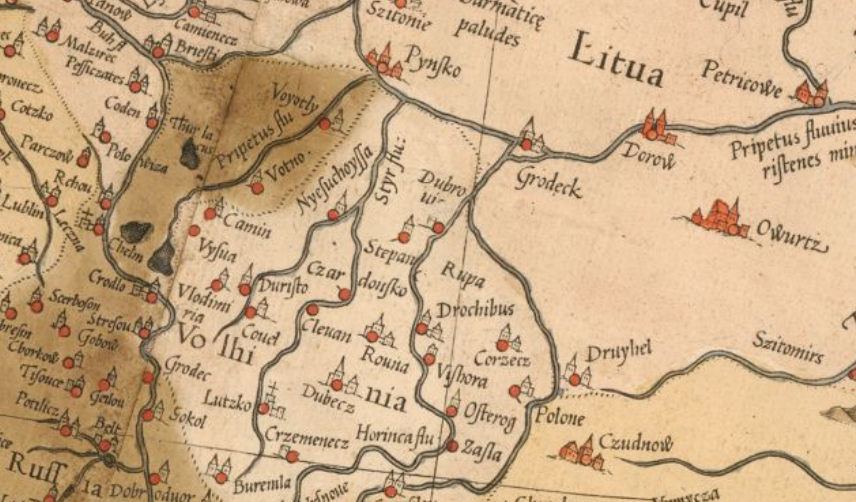 Dubrovytsia and some Volhynian towns on the map of Europe (LITHUANIA AND RUSSIA, f.45), Gerardus Mercator (1554).